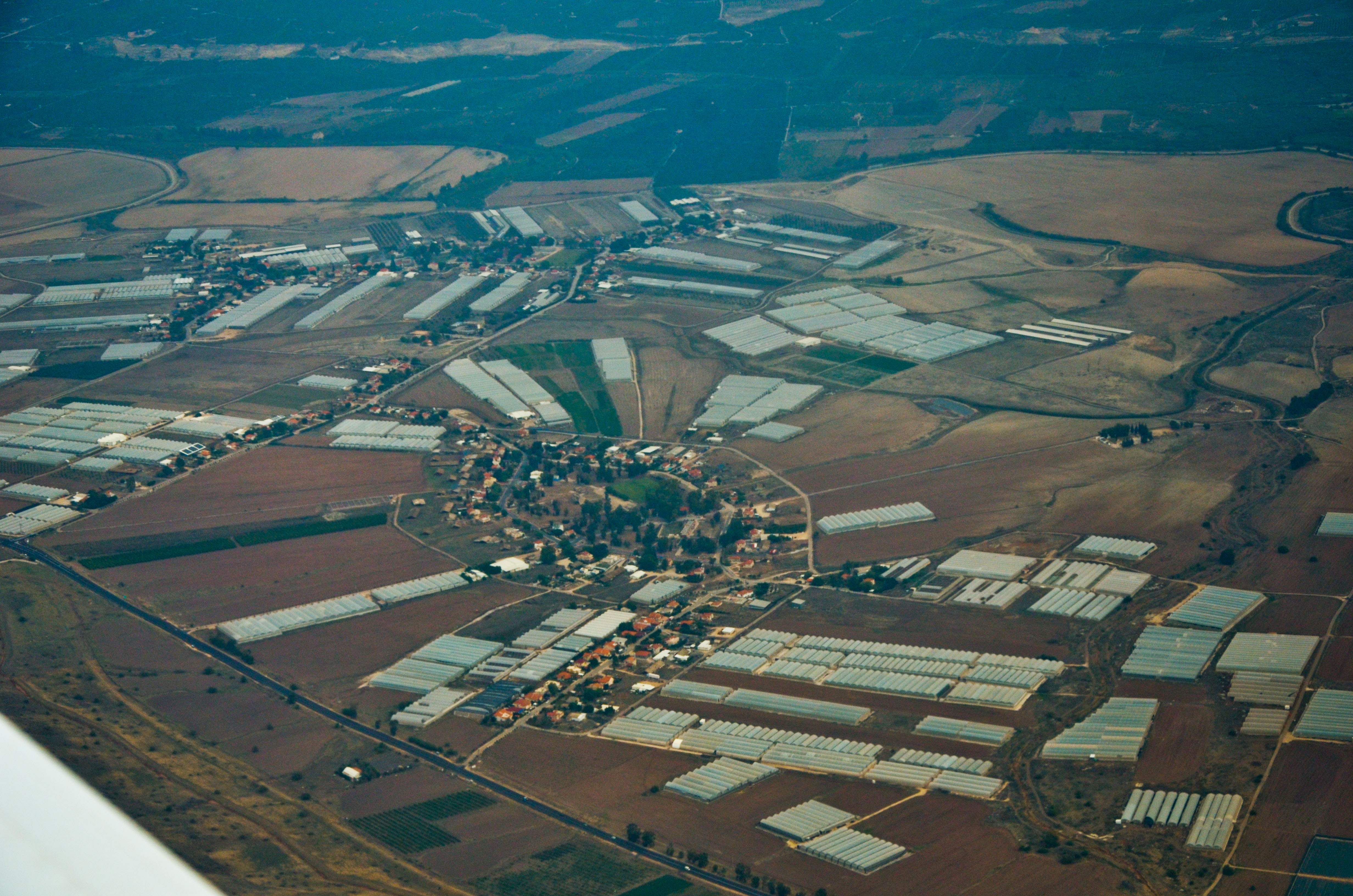 Shot from plane flown by Ilan maytal